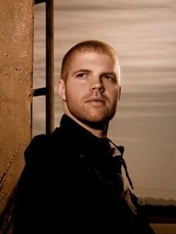 Photo of Morgan Page